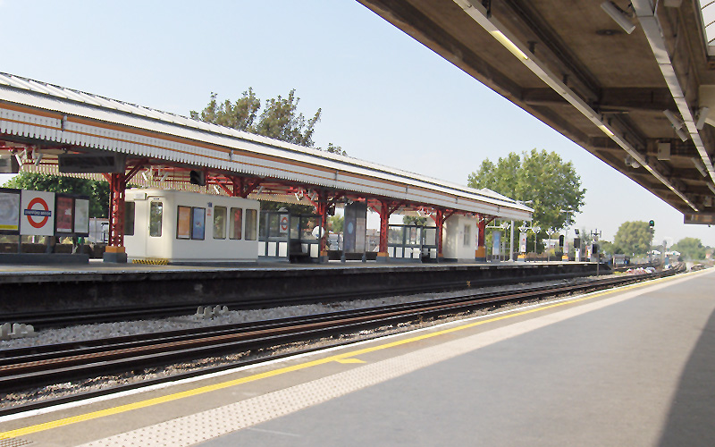 Stamford Brook underground station platforms looking towards Turnham Green (September 2006)